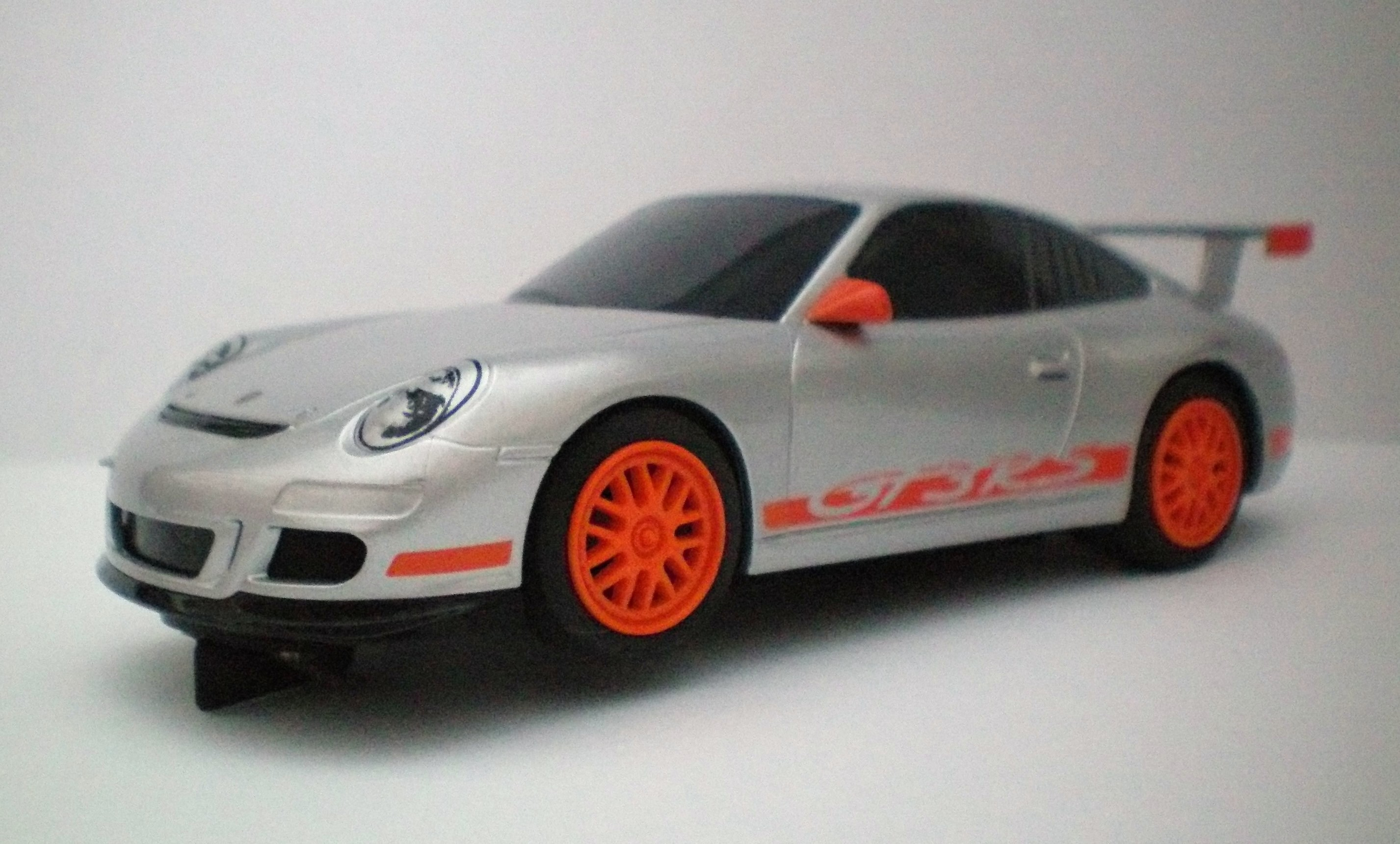 Scalextric Model Porsche 997 With White Background